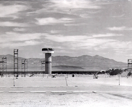 A 340,000-pound simulated missile and canister is thrust 40 feet above the ground after cutting through a layer of soil weighing 50,000 pounds.